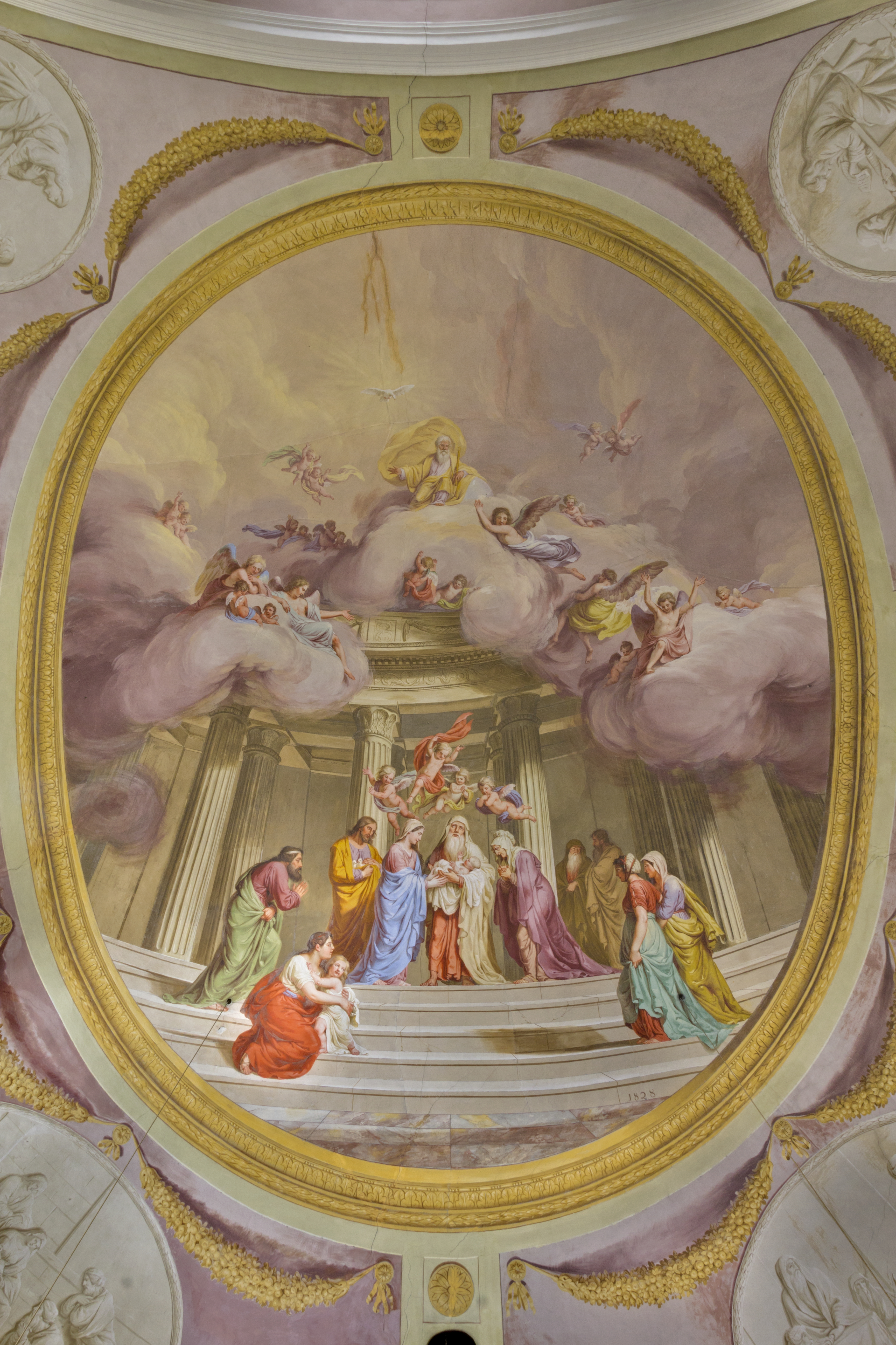 The fresco at the church of Mariä Heimsuchung, Gries am Brenner